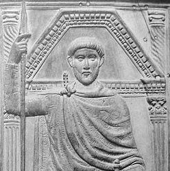 Detail from the diptych of Stilicho, at Monza cathedral.